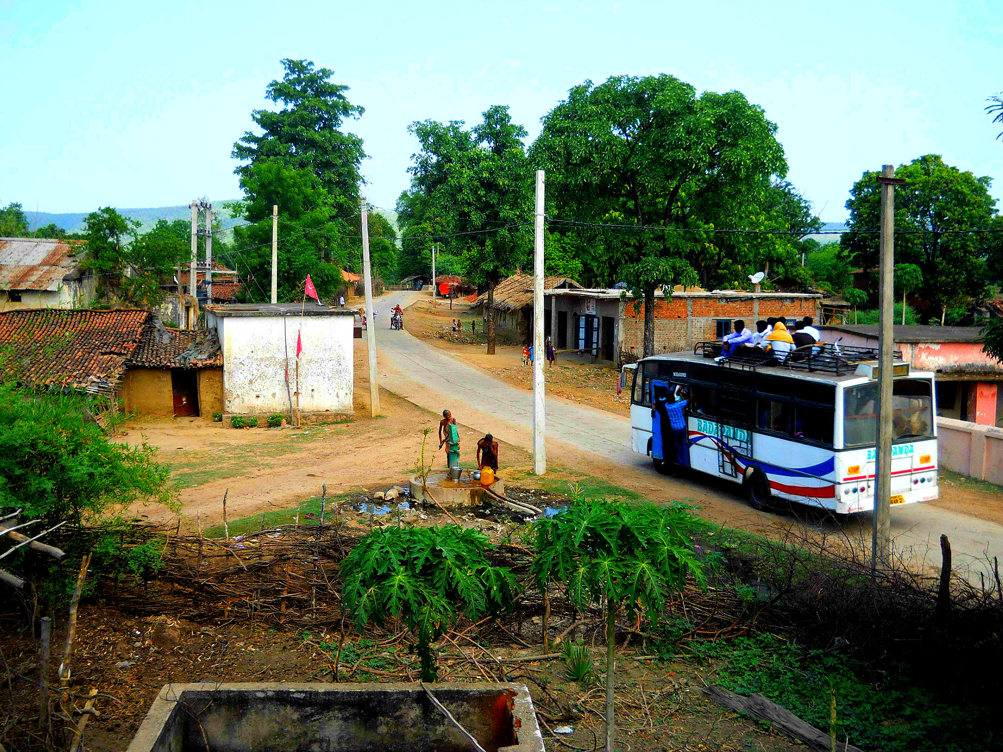 temri village photo